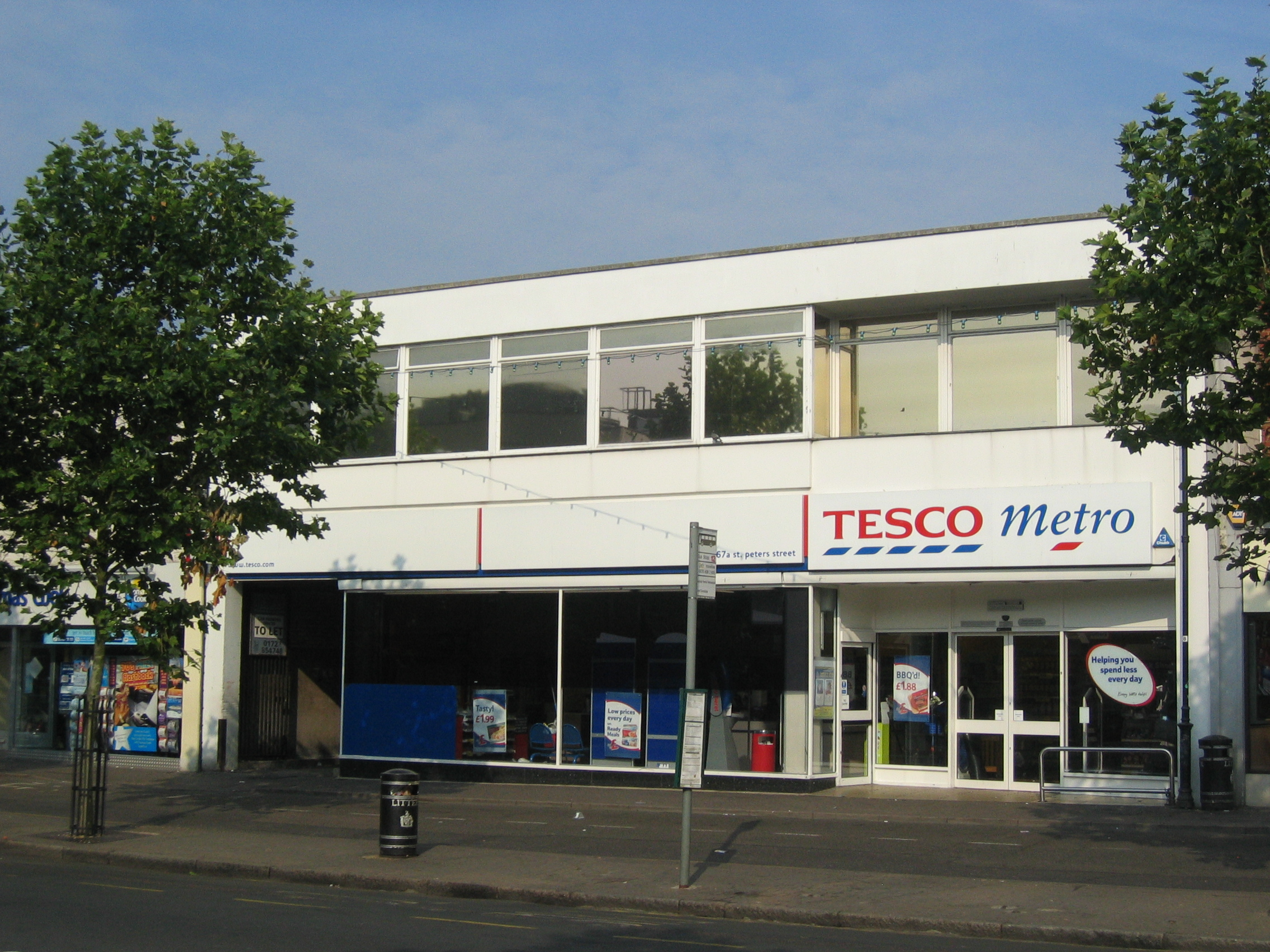 Tesco in St Peters Street, St Albans, England. Historic because it was the first Tesco self-service store, opened in 1948. Closed 2010 and relocated to former Woolworths building; site most recently occupied by Poundworld.